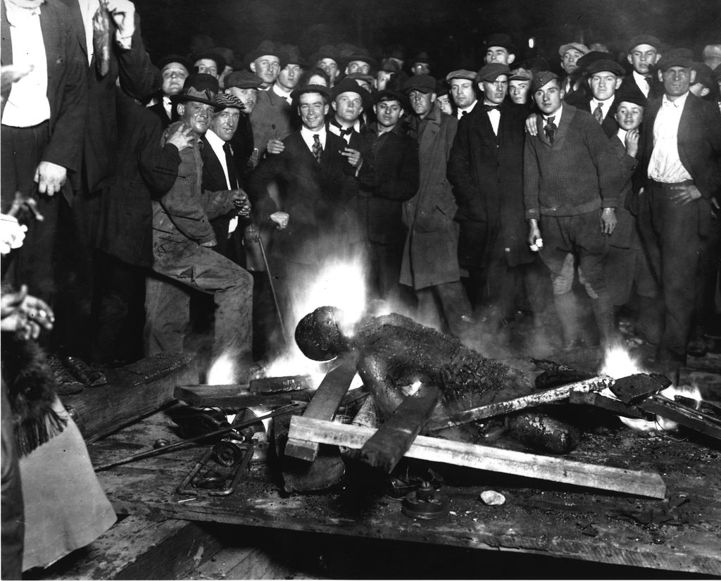 The charred corpse of Will Brown after being killed, mutilated and burned.